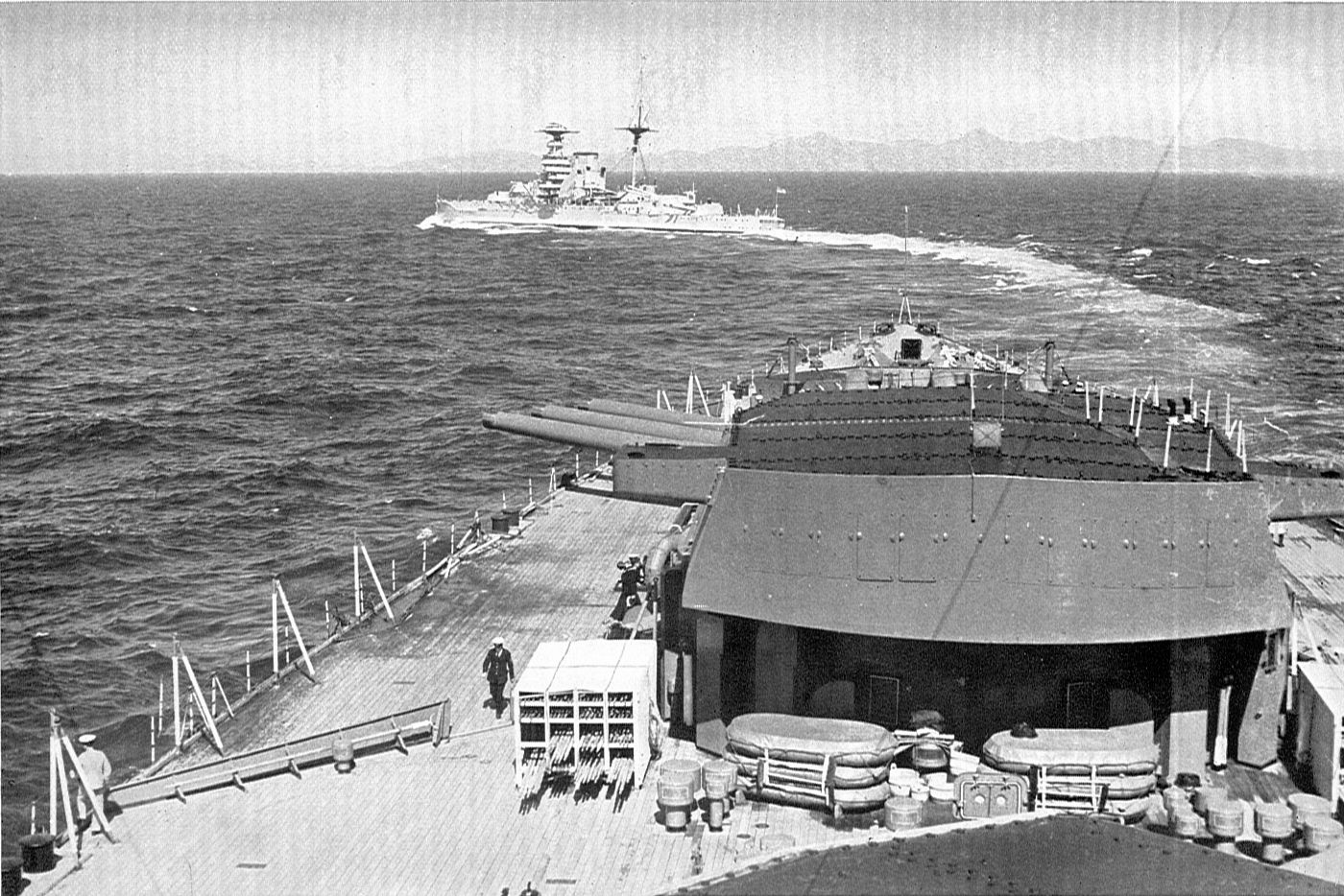 HMS Warspite altering course Photo: Charles E. Brown Presumably photographed from the roof of 'X' turret, either HMS Nelson or HMS Rodney